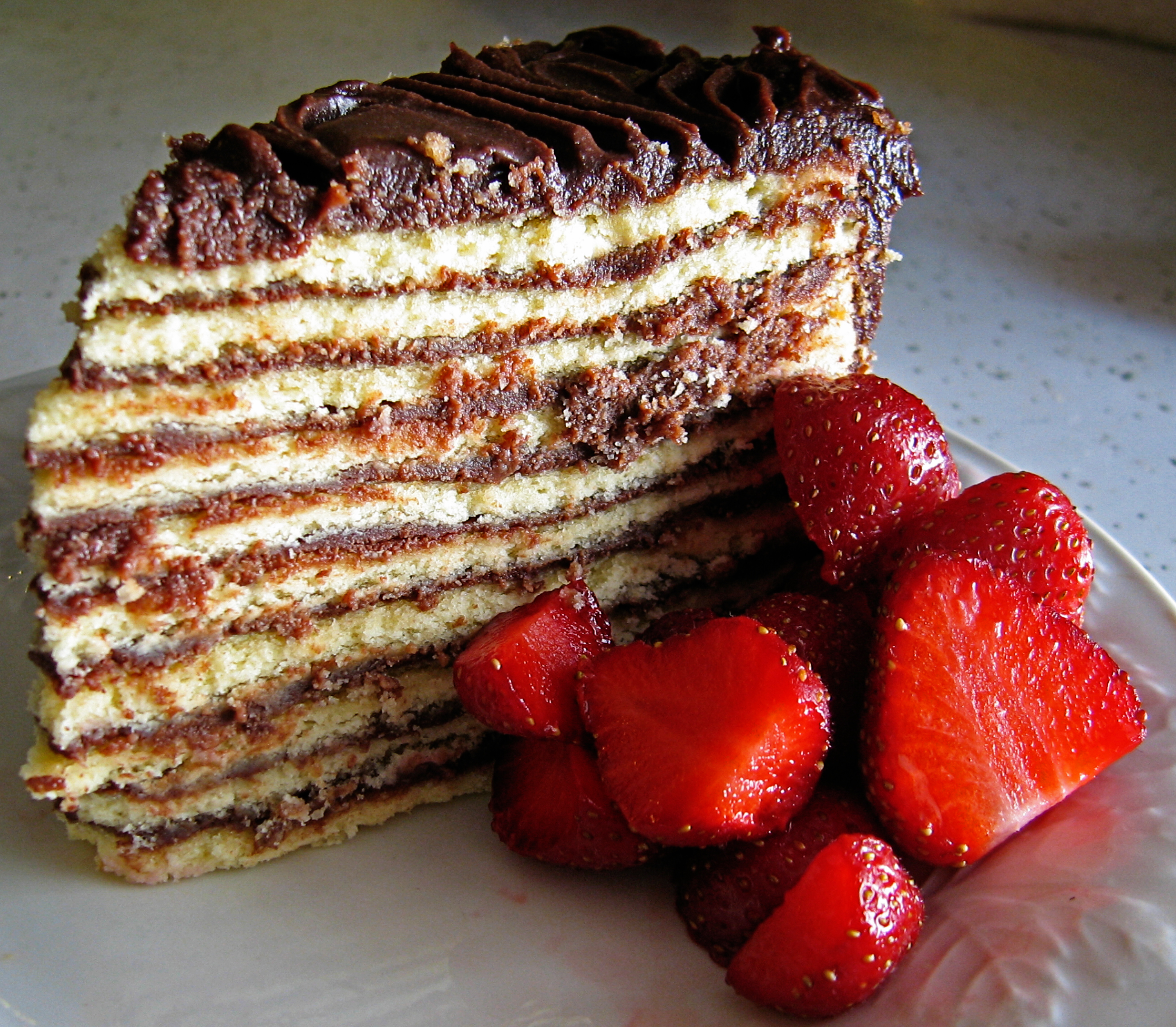 This is what I had for lunch today :) Smith Island cake (the state dessert of Maryland) and fresh local organic strawberries.